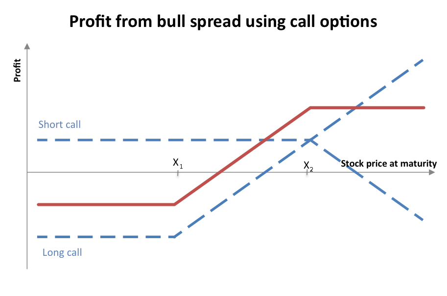 Profit diagram of a bull spread created with call options